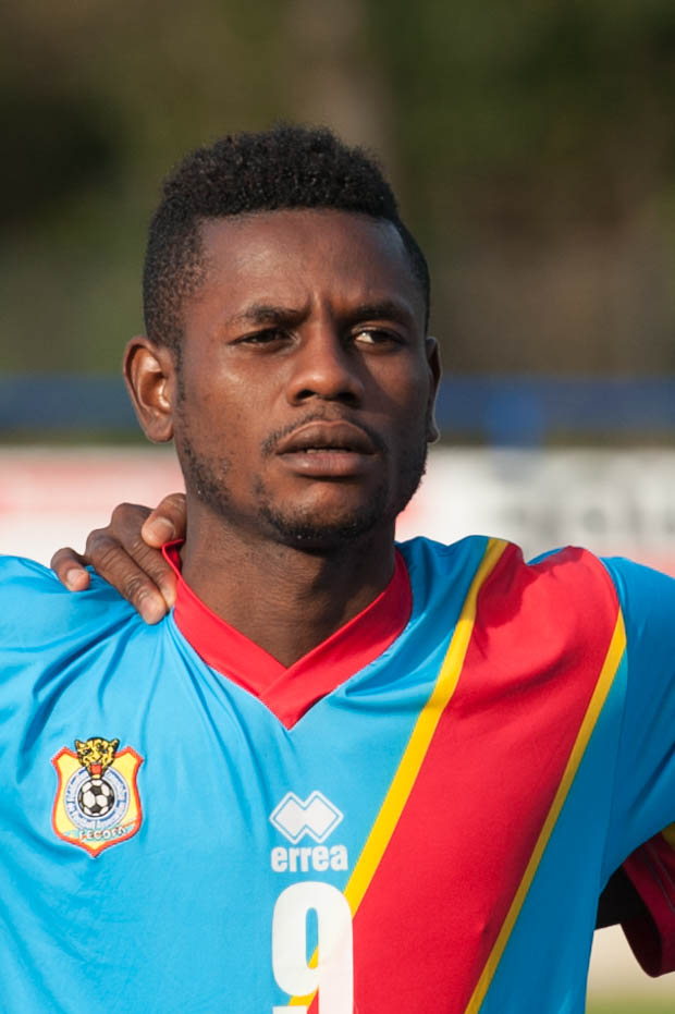 U21 Austria - DR Congo, 2014-10-12: Manzia